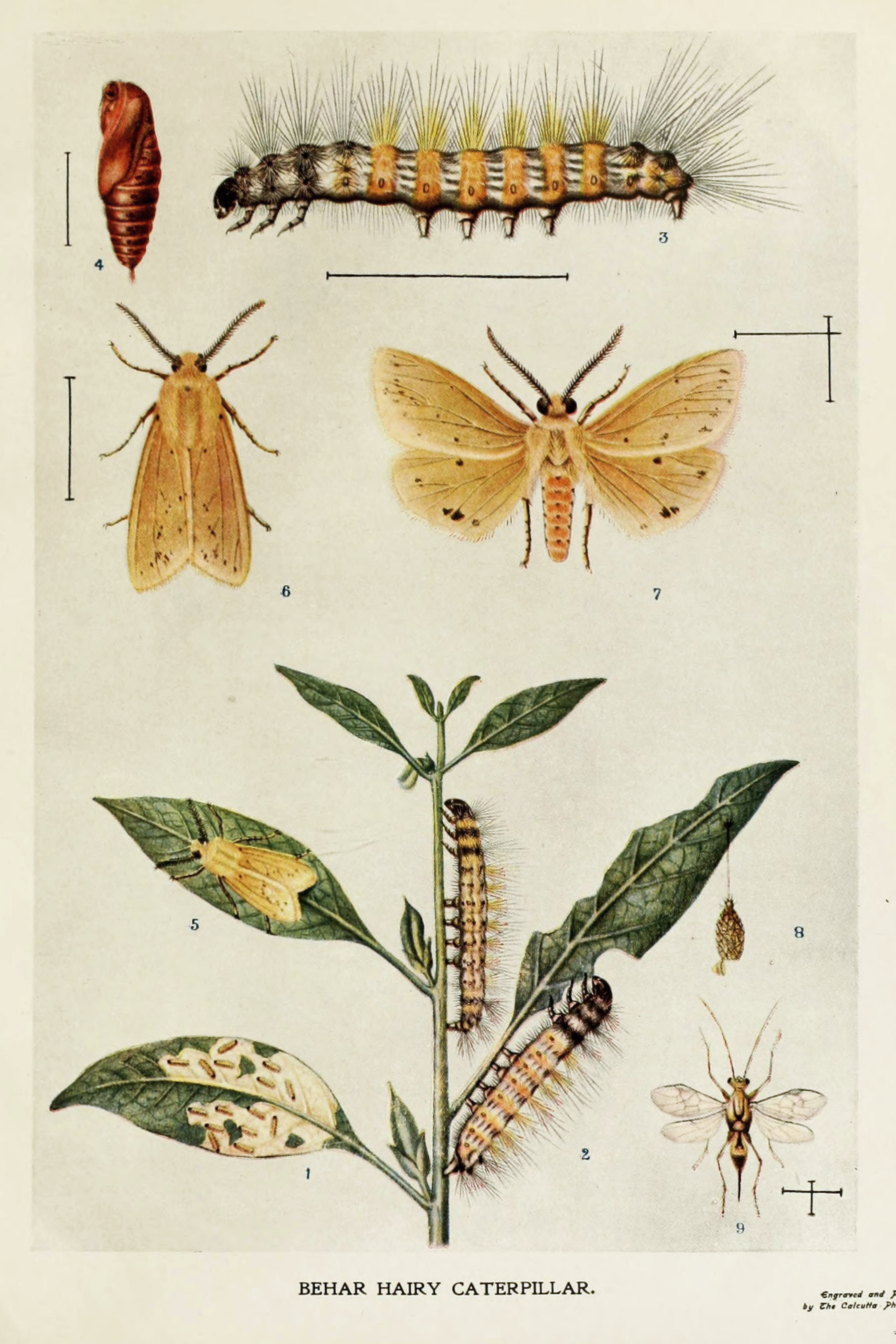 Picture from book Indian Insect Life: a Manual of the Insects of the Plains by Harold Maxwell-Lefroy. Plate XXXV: Diacrisia obliqua = Spilosoma obliqua (Walker, 1855)